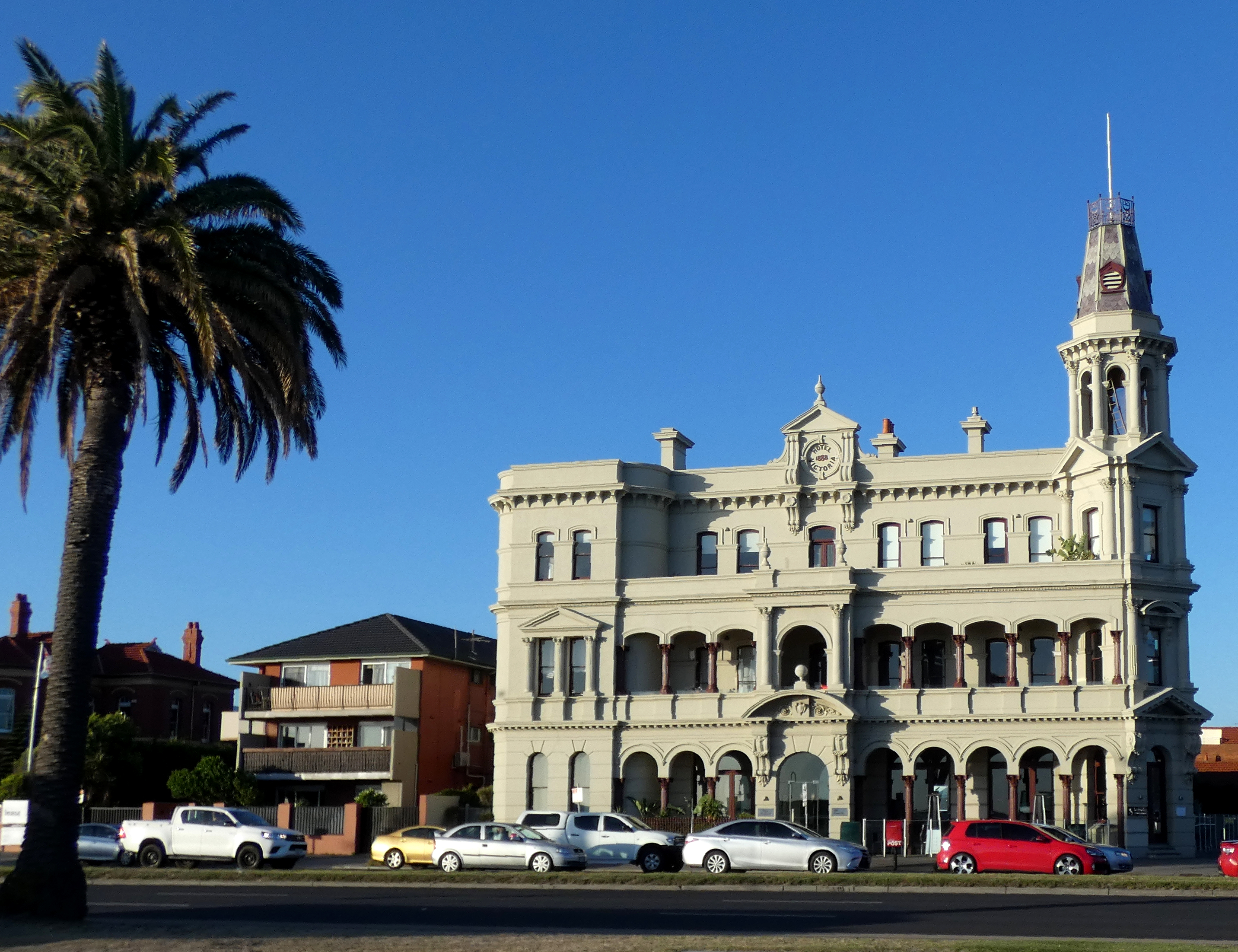 Architecture of Victorian building next to contemporary apartments in St Kilda, Victoria.